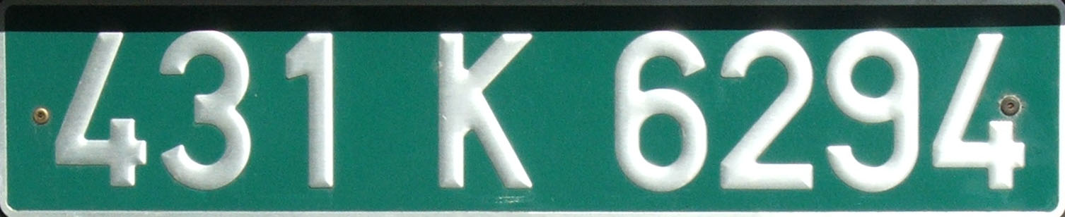 French license plate for international organizations, 431 = CERN - seen in 2007 in Geneva, Switzerland